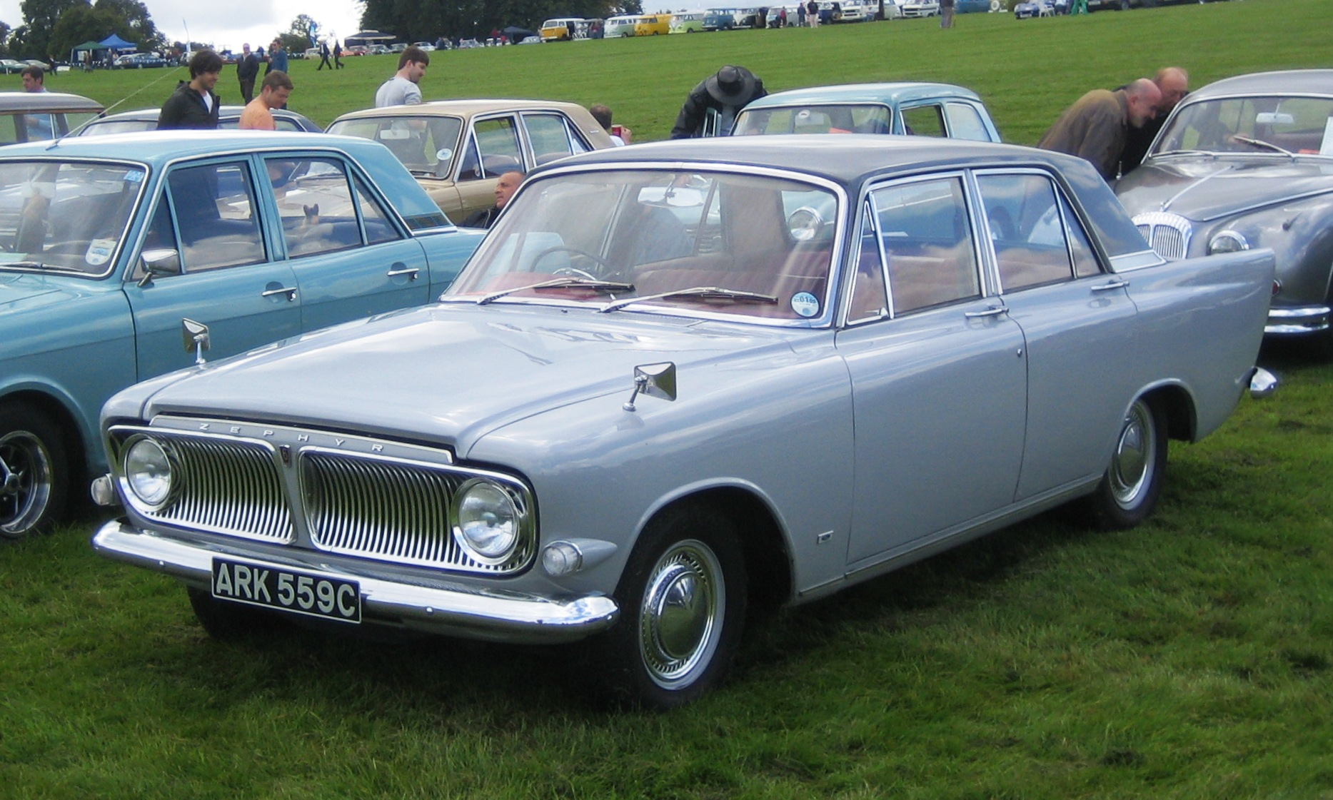 Ford Zephyr Six. With the Mark III version shown here the front of the six cylinder version has a split grill whereas the four cylinder version, the Zephyr 4, has a one piece grill. Directly to the right of the Zephyr is a Ford Cortina Mark II of the shape sold between 1966 and 1970. Directly behind it is the Daimler badged and engined version of the Jaguar 240/280. Diagonally behind it is an Austin A40 from the late 1950s or early 1960s.